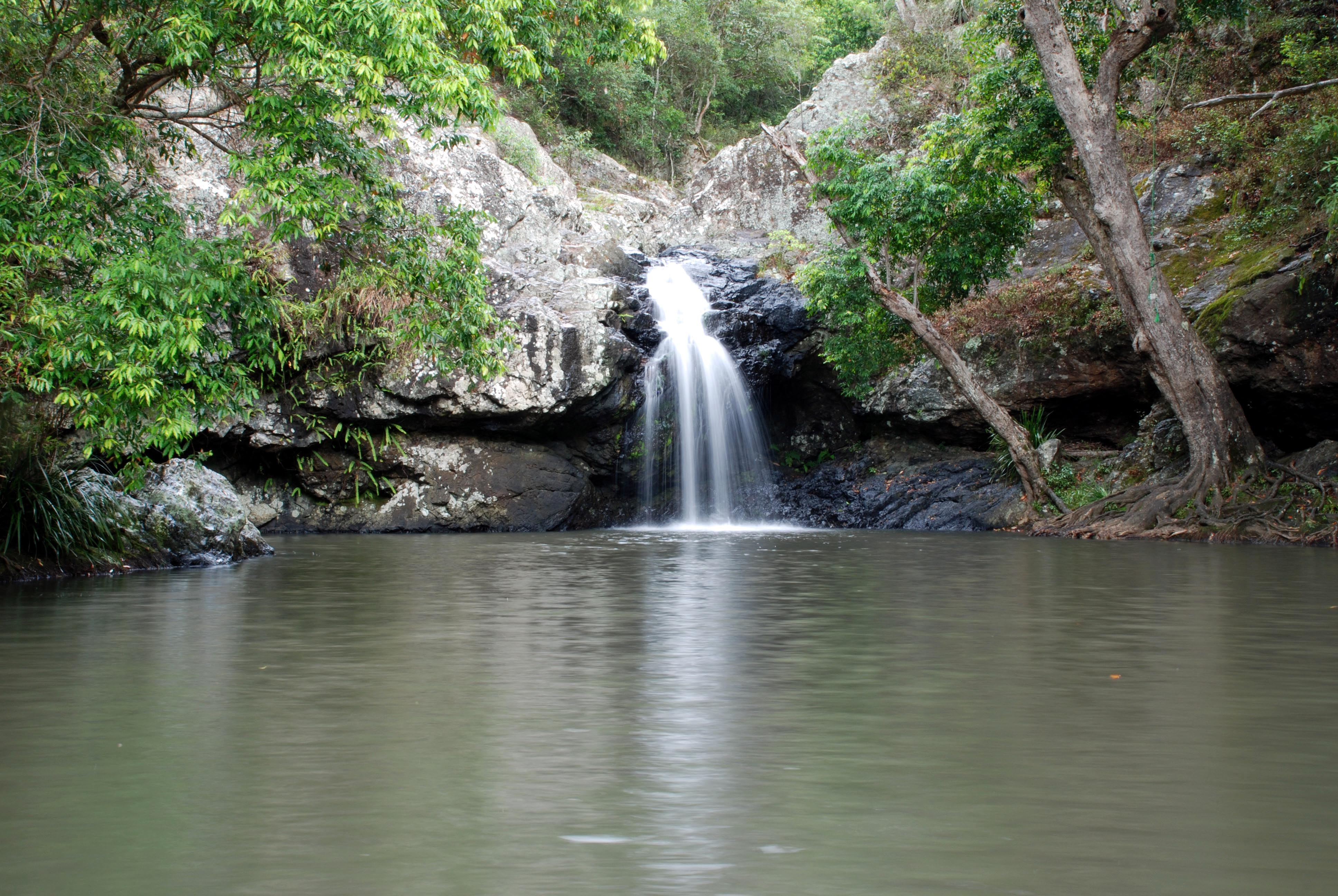 Sunshine Coast, Queensland - Kondalilla falls